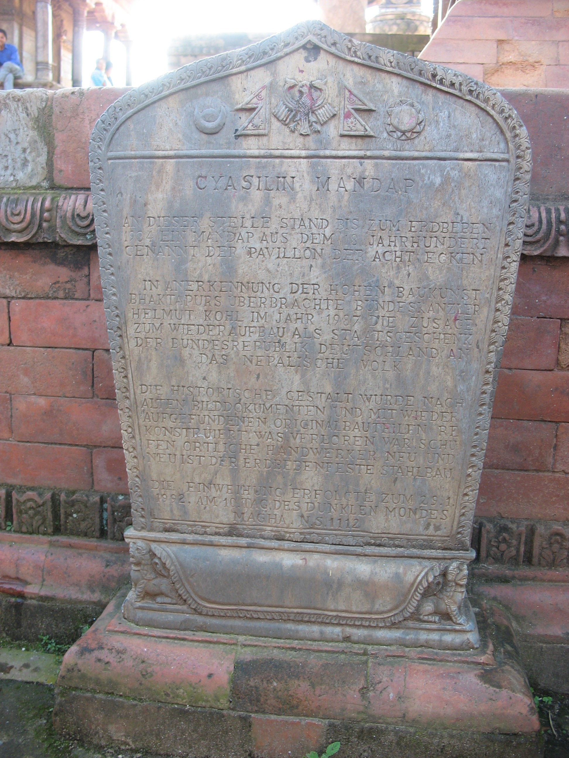 Memorial stone in Bhaktapur (Nepal) at Lasku Dhwakha (Durbar Square) in German language, thanking the Federal Republic of Germany for rebuilding the Chasilin Mandapa.